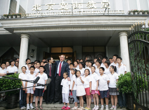 Standing with the Kuanjie Summer Vacation School Choir and Pastor Meng Maoru, President George W. Bush delivers a statement outside Beijing Kuanjie Protestant Christian Church in Beijing Sunday, Aug. 10, 2008. Said the President, "Laura and I just had the great joy and privilege of worshiping here in Beijing, China. You know, it just goes to show that God is universal, and God is love, and no state, man or woman should fear the influence of loving religion."